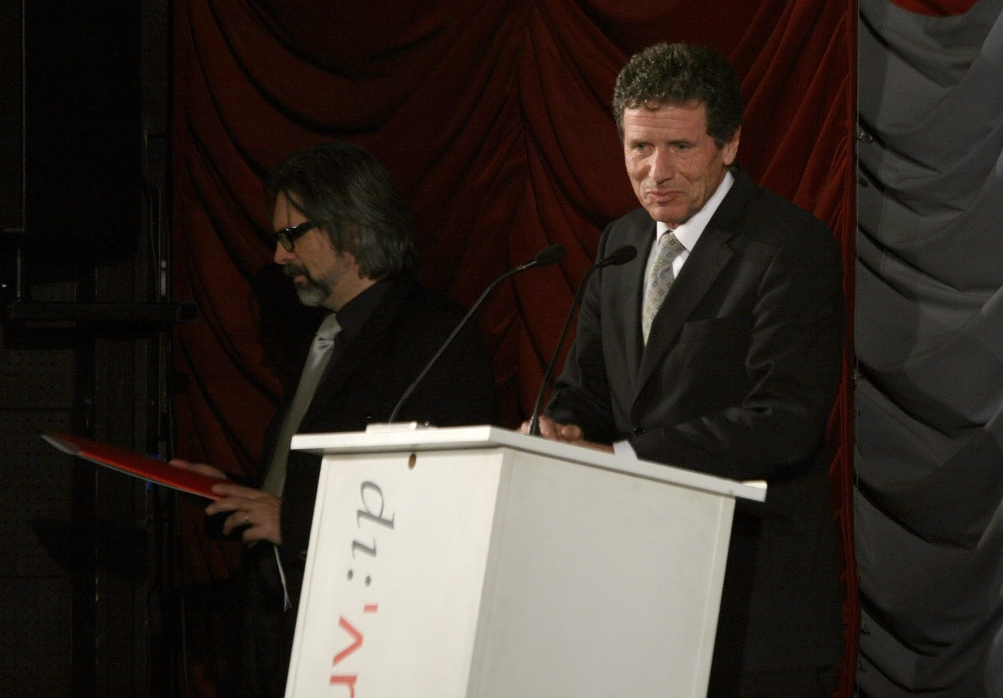 Karlheinz Töchterle and Gerald Bast at the ceremony of the Oskar Kokoschka Award 2012 for Yoko Ono at the Gartenbaukino in Vienna.